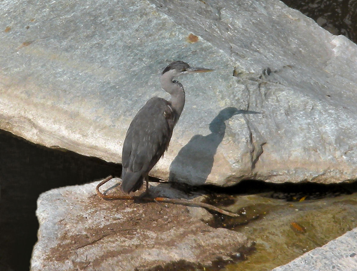 Genoa (Italy), heron in the river Polcevera near Bolzaneto